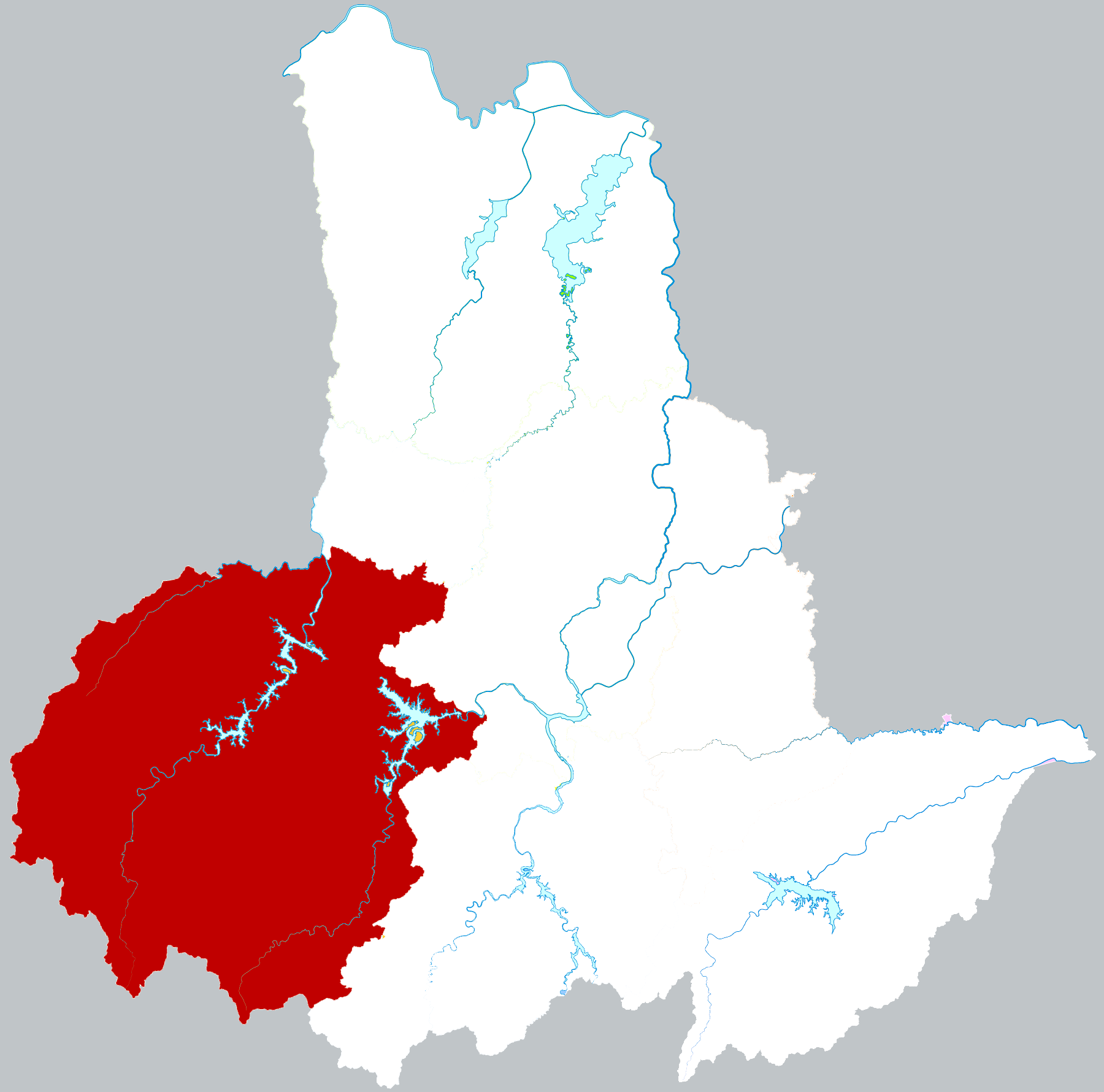 Location of Jinzhai county in Lu'an city, China